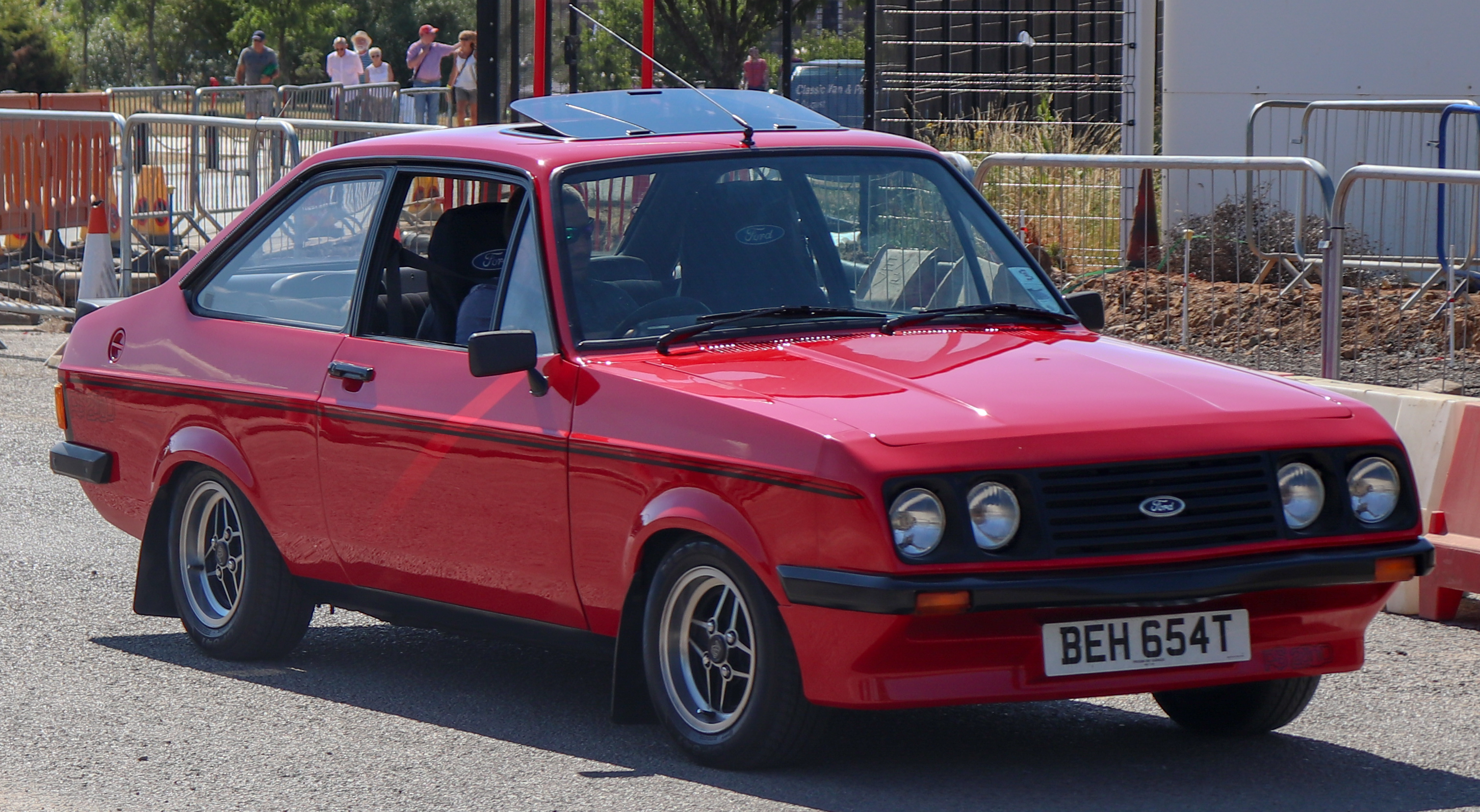 1978 Ford Escort RS2000 Taken at the British Motor Museum Old Ford Rally 2018, Gaydon